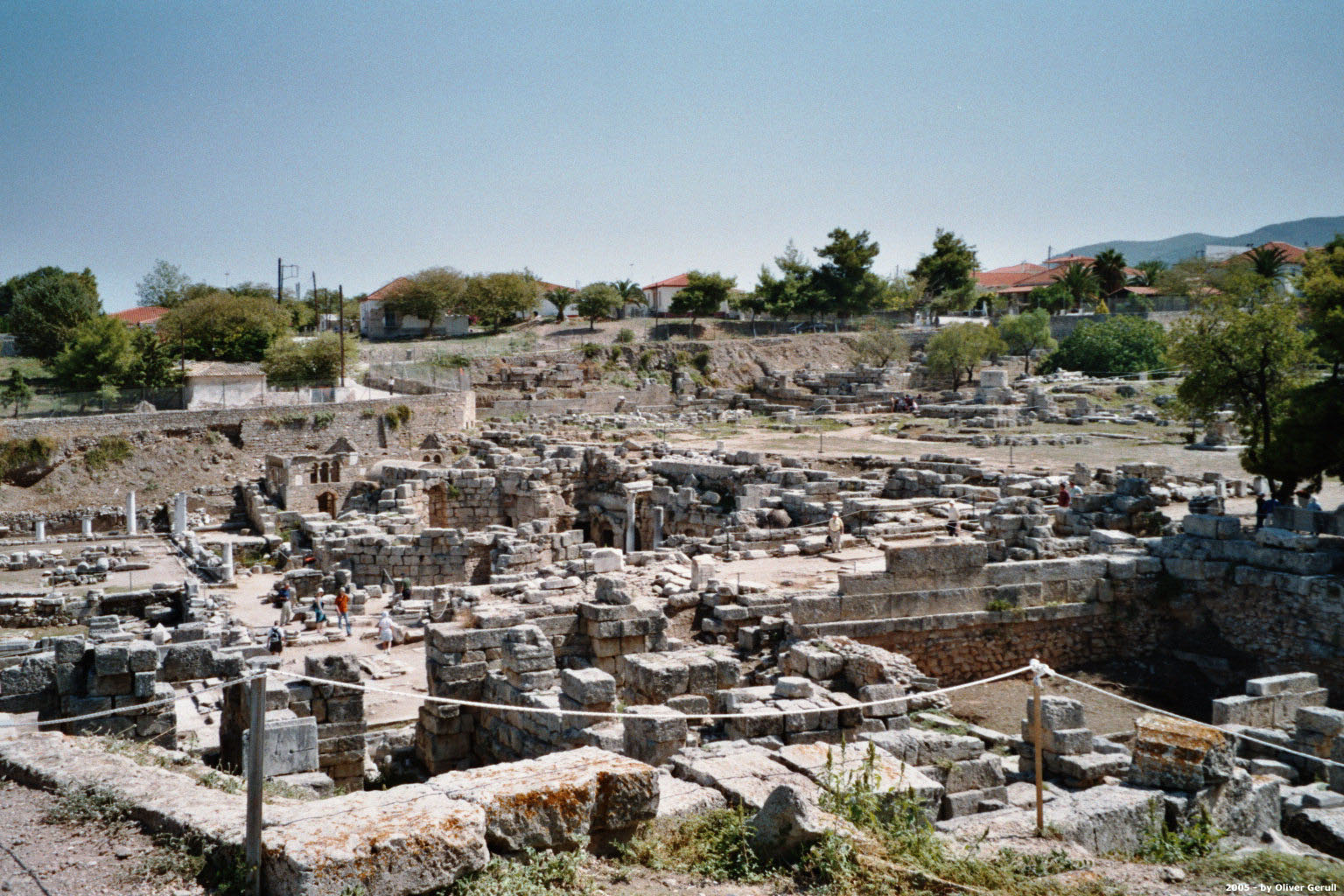 Archaeological site of Corinth (Korinthos) in the village of Archaia Korinthos.